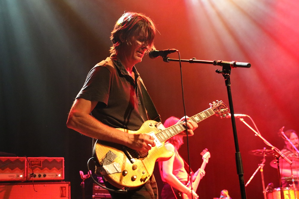 Stephen Malkmus & the Jicks performing at the Gothic Theatre in Englewood, Colorado on July 31, 2018